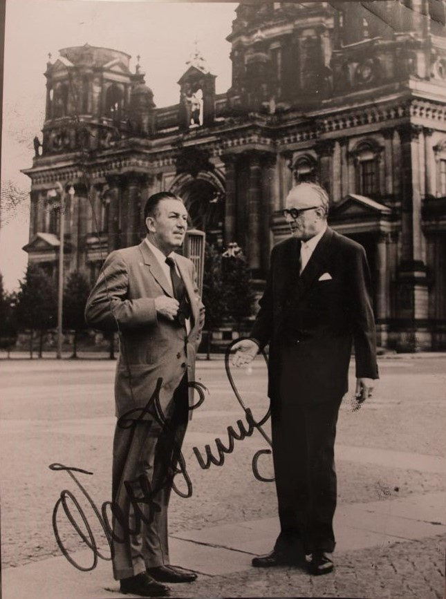 Photograph signed by Walt Disney (1902-1966), taken in East Berlin. It can be found in the Society for Culture, Art and International Cooperation Adligat in Belgrade, Serbia. Српски (ћирилица): Фотографија са потписом Волта Дизнија (1902-1966) сликана у Источном Берлину. Налази се у Удружењу за културу, уметност и међународну сарадњу „Адлигат” у Београду.